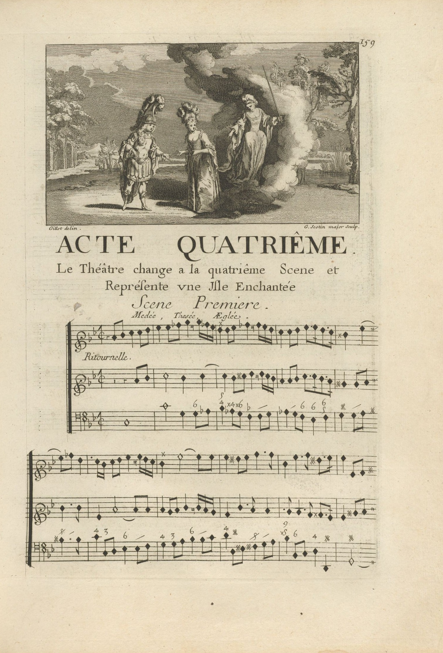 Thesée: tragedie, 1711, by Jean-Baptiste Lully (1632-1687). M1500.L95 T5 1711 (B), Houghton Library, Harvard University